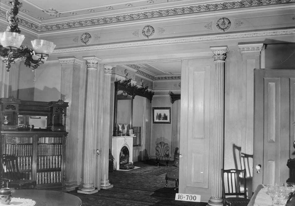 Watts-Parkman-Gillman House; now known as Sturdivant Hall (INTERIOR; DRAWING ROOM TOWARD PARLOR) — 713 Mabry Street, Selma, Dallas County, Alabama. 1934 HABS—Historic American Buildings Survey of Alabama image. HABS ALA,24-SEL,1-7.